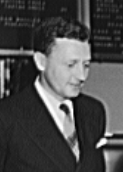 Stanley Woodward, Assistant Chief of Protocol (1937-1944).